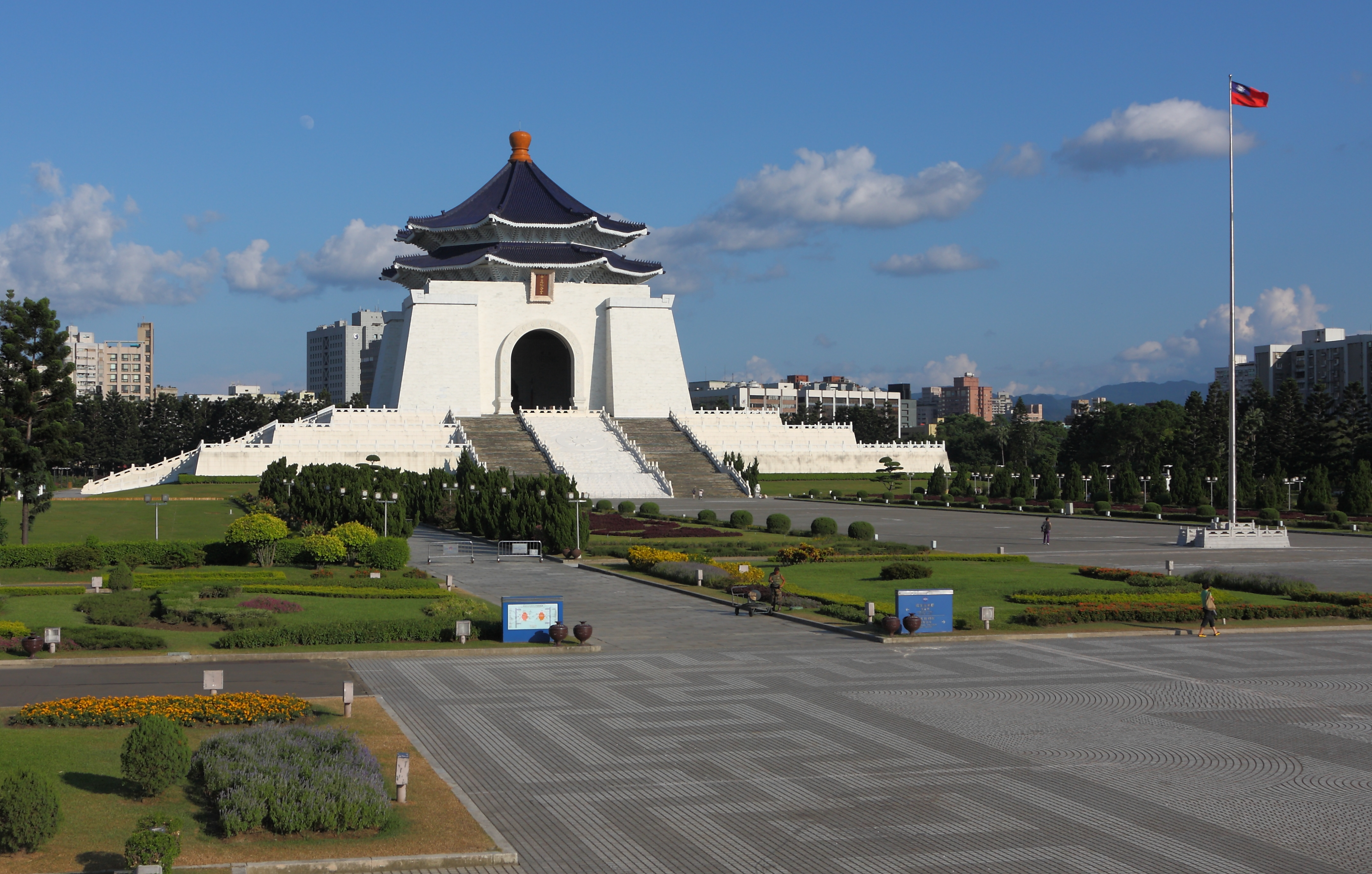 Chiang Kai-shek Memorial Hall, Taipei, Taiwan.